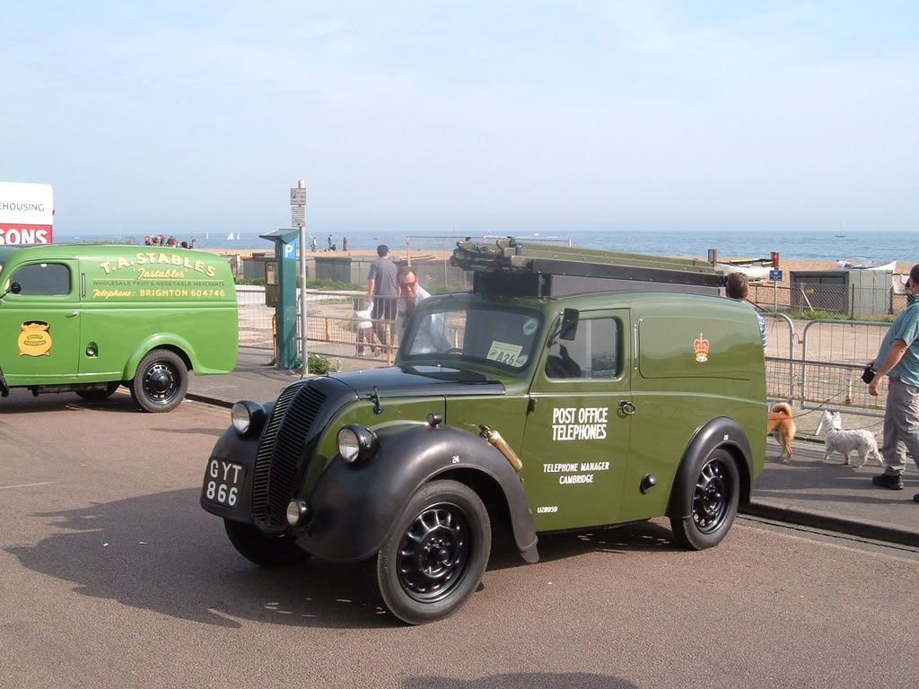 1944 Morris Z Series G.P.O. telephone lineman’s van.